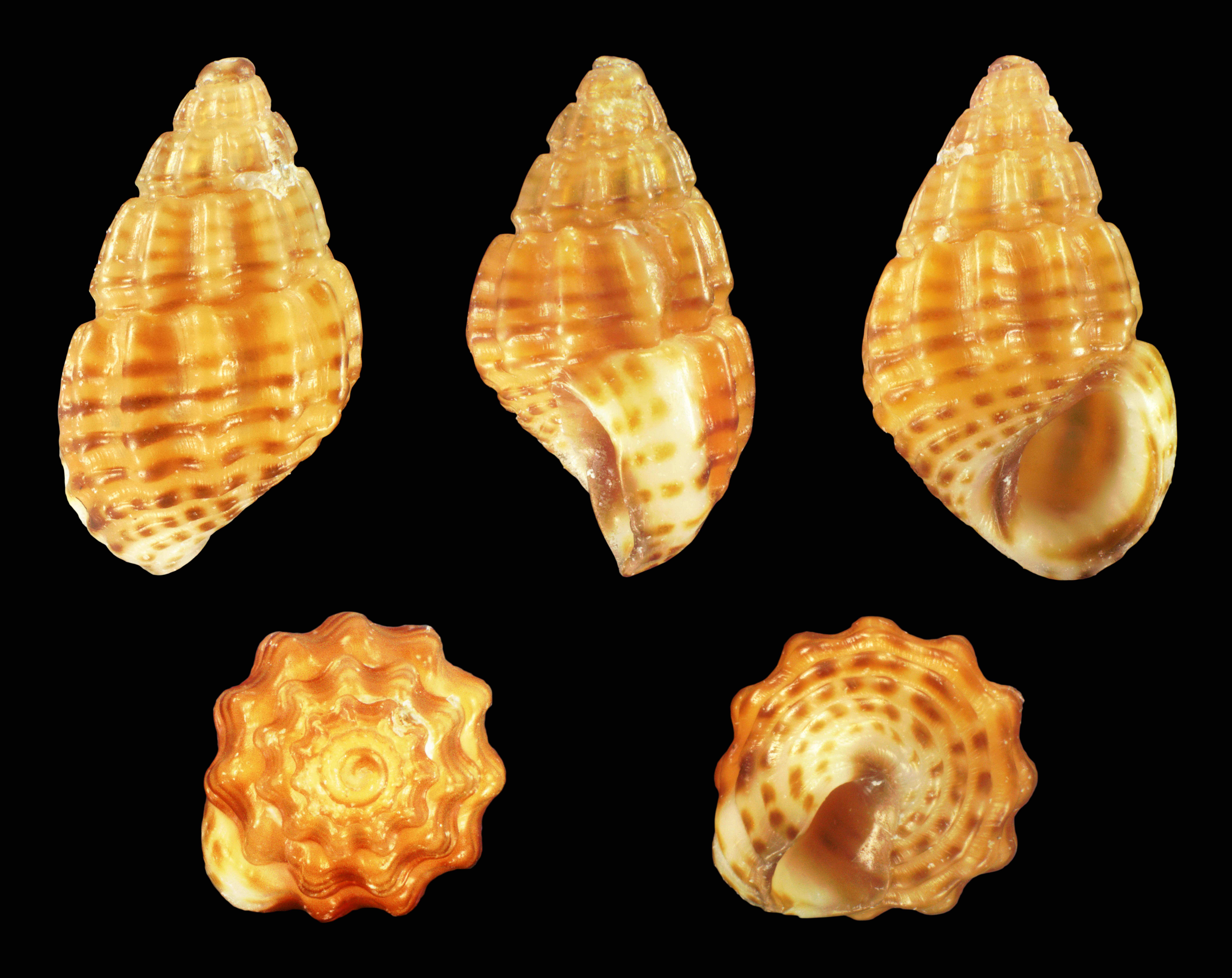 Length 0.45 cm; Originating from Urbanizació s’Estanyol, Majorca, Spain 39°44′2.01″N 3°15′30.51″E / 39.7338917°N 3.258475°E; Shell of own collection, therefore not geocoded. Dorsal, lateral (right side), ventral, back, and front view.